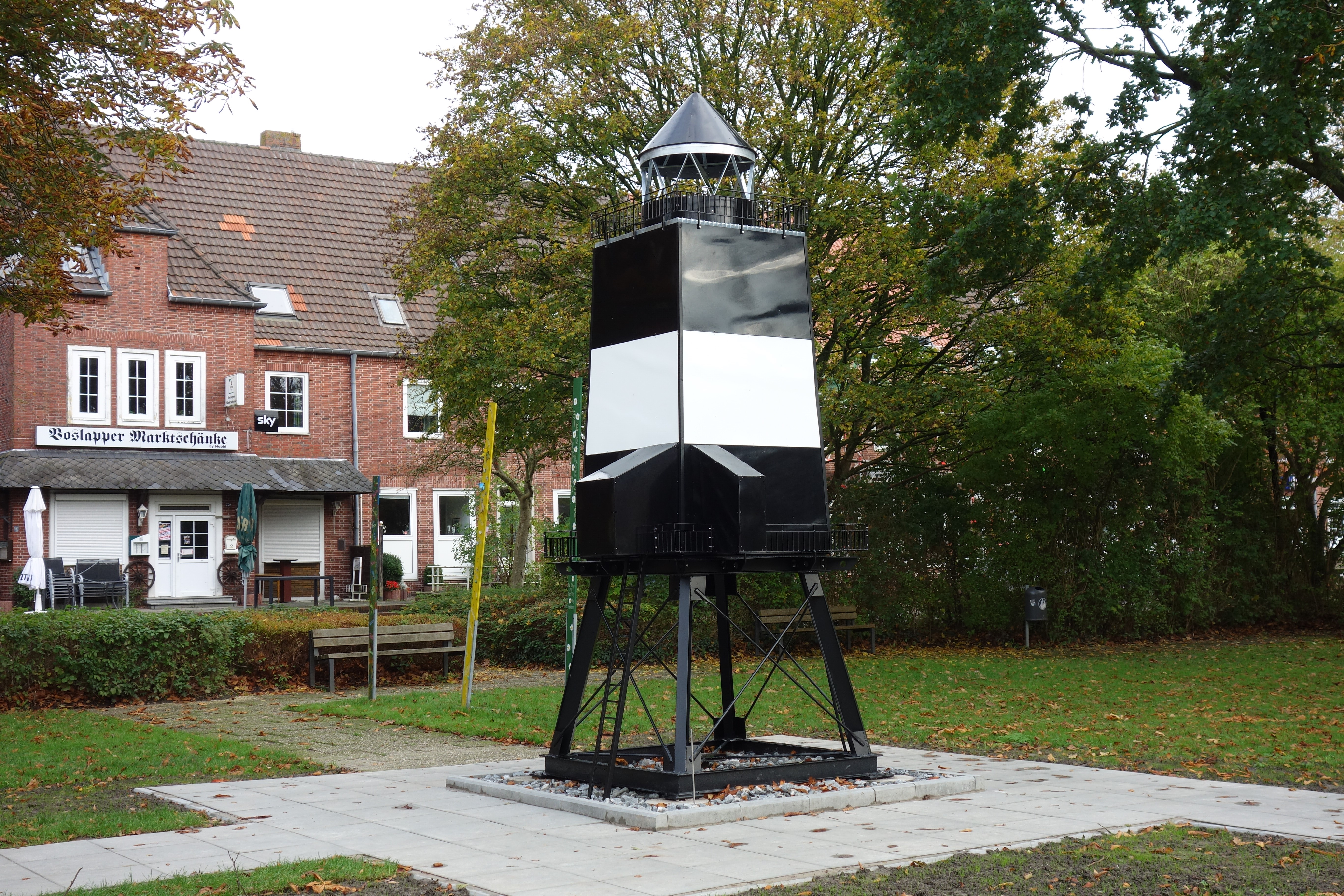 1:5 scale replica of the old Voslapp lighthouse, completed in October 2019